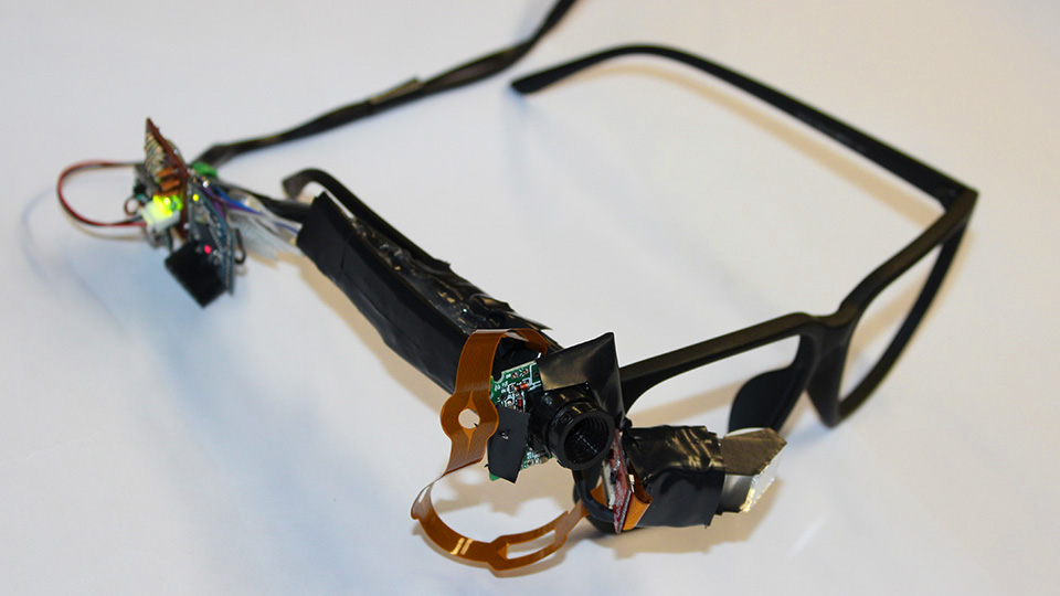 Do-It-Yourself Peripheral Head-Mounted Display: Optical Display, Camera, Capacitive Touchsensitive Field, Microcontroller.